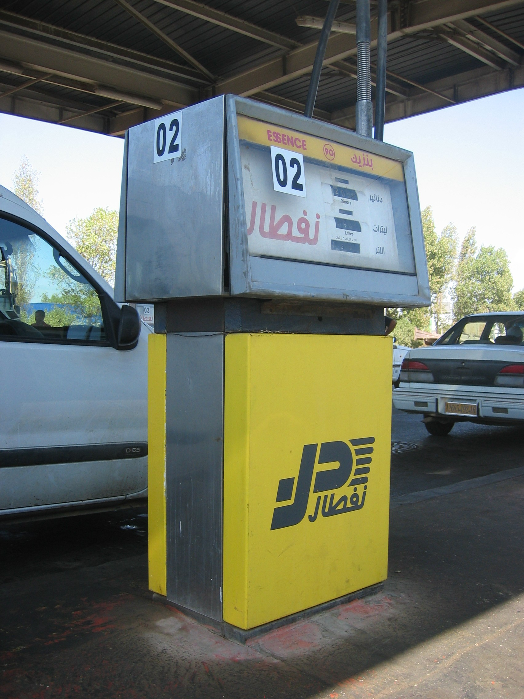 A Naftal gas pump in Algeria.